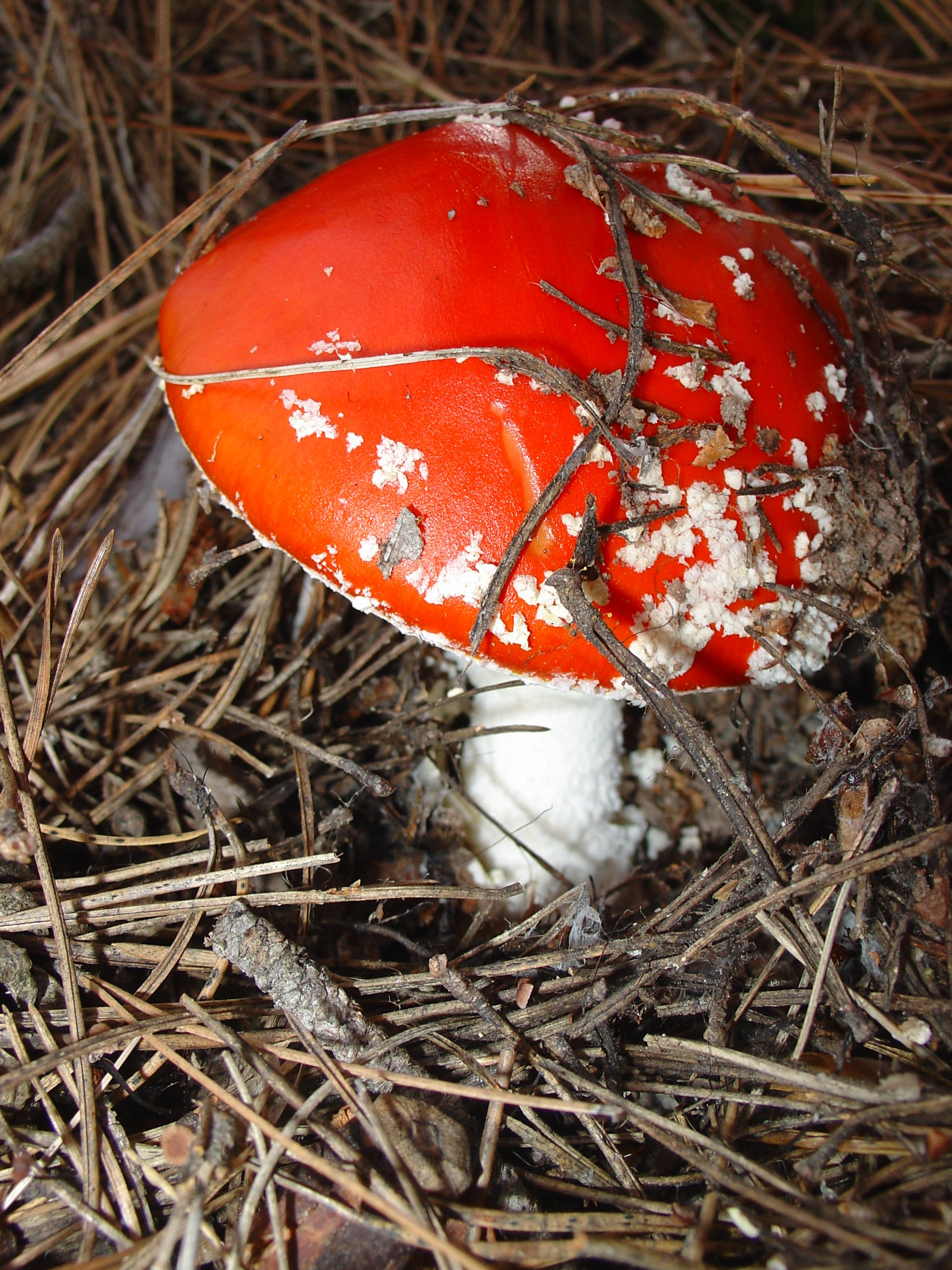 Amanita muscaria from Sierra de Valdemeca, Cuenca, Spain, in a pine woodland of Pinus sylvestris.